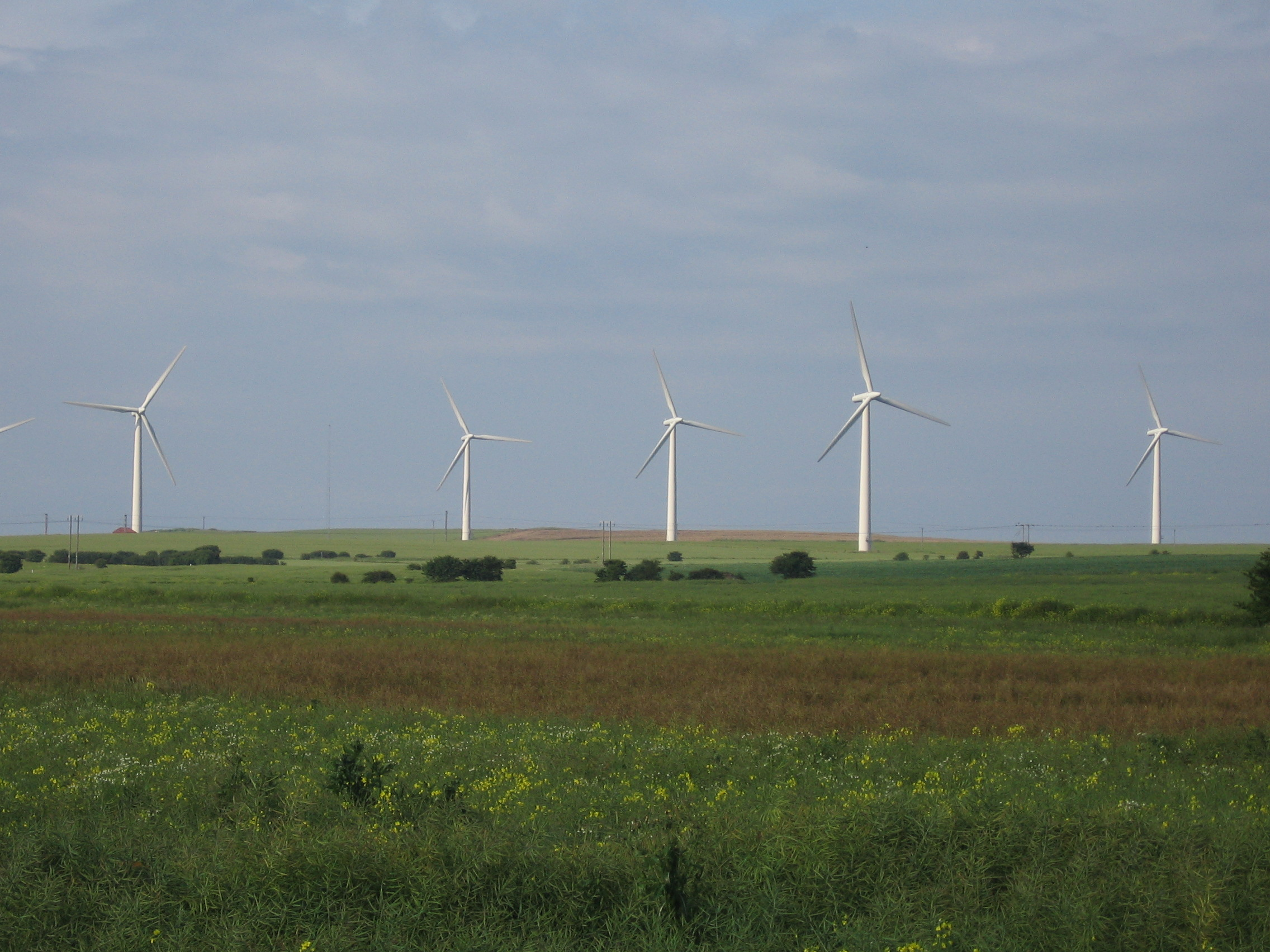 Wind Farm at Out Newton, East Riding of Yorkshire, England. Photograph taken my me on 23 June 2007.